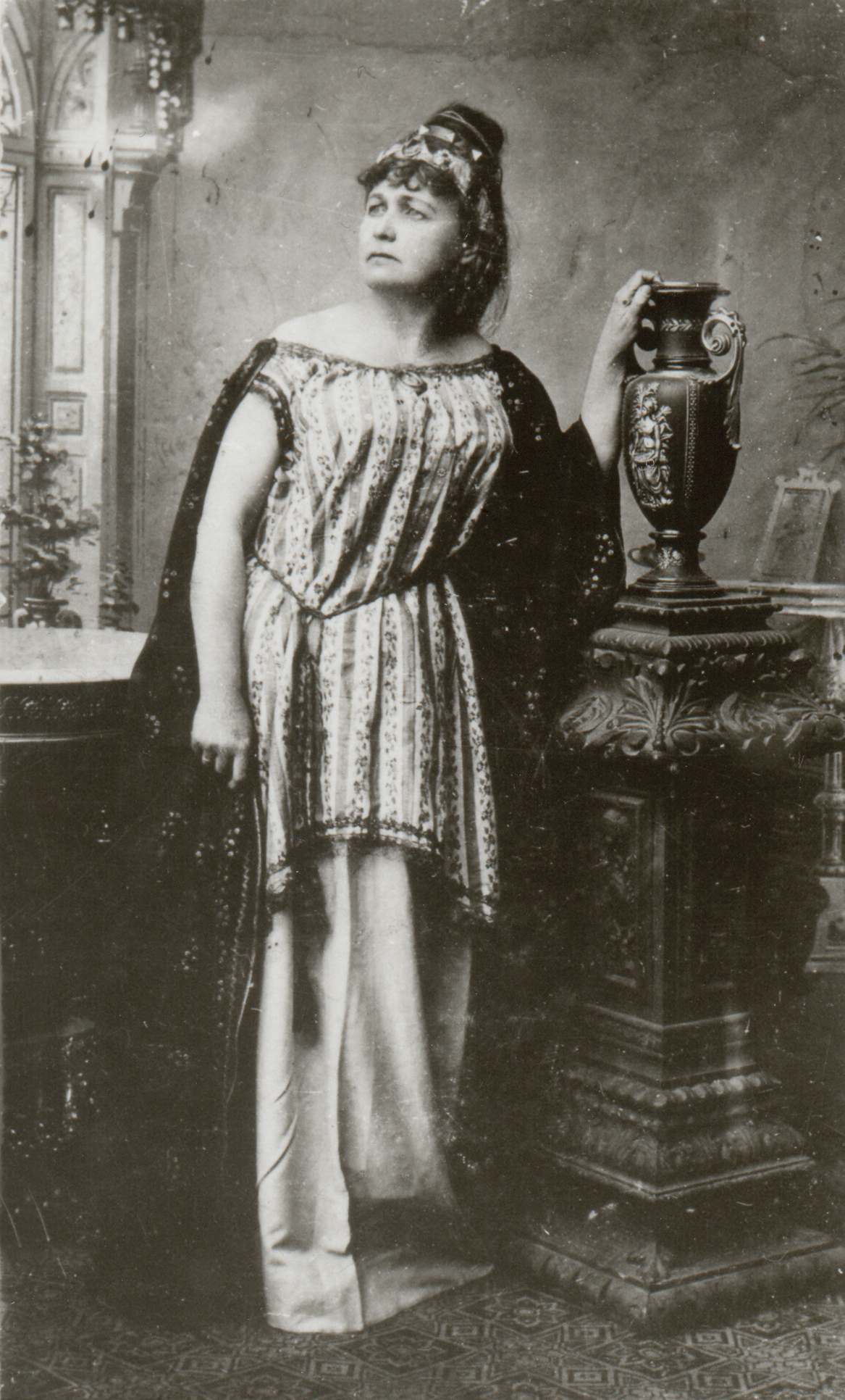 Milka Grgurova, Deborah, S. Mozenthal, NT,approx 1880 Srpski (latinica): Milka Grgurova, Debora, S. Mozental, NP, Beograd, oko 1880. Српски (ћирилица): Милка Гргурова, Дебора, С. Мозентал, НП, Београд, око 1880.